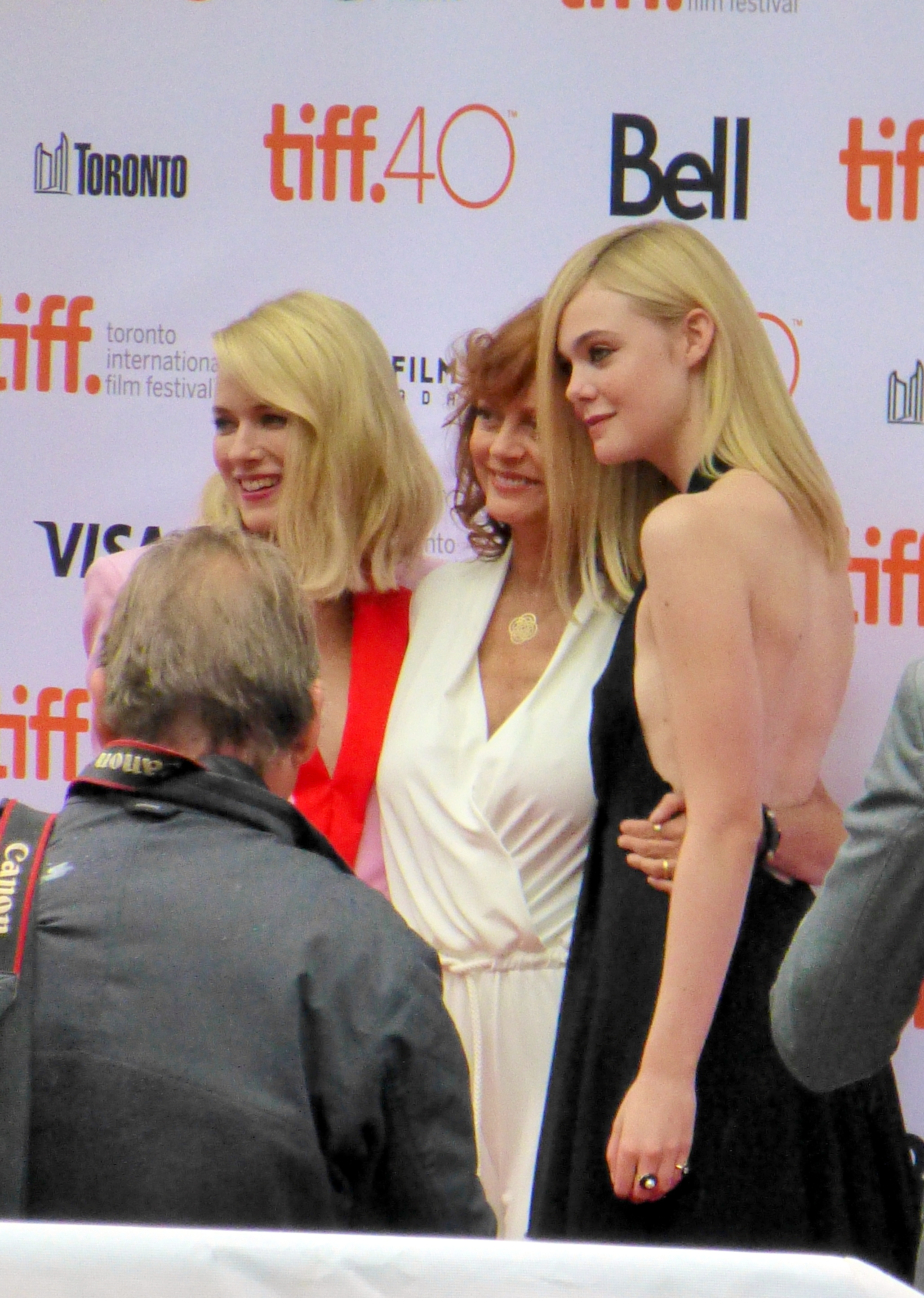 Naomi Watts, Susan Sarandon, and Elle Fanning at the premiere of About Ray, 2015 Toronto Film Festival